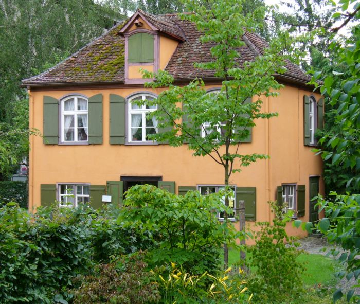 Christoph Martin Wieland - Gardenhouse in Biberach an der Riß, Germany